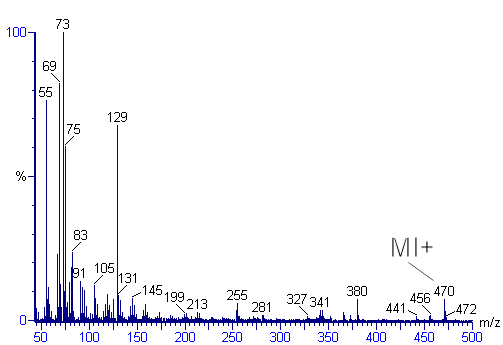 Brassicasterol - TMS ether (Mudge, S.M. 2006)